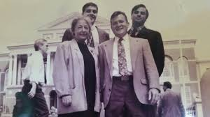 Helen Woodman, who owned the State House News Service in Boston from 1978-1996, sold it to Craig Sandler, here pictured on her left in front of the Massachusetts State House with former SHNS reporters Jon Tapper and Dan Boylan.